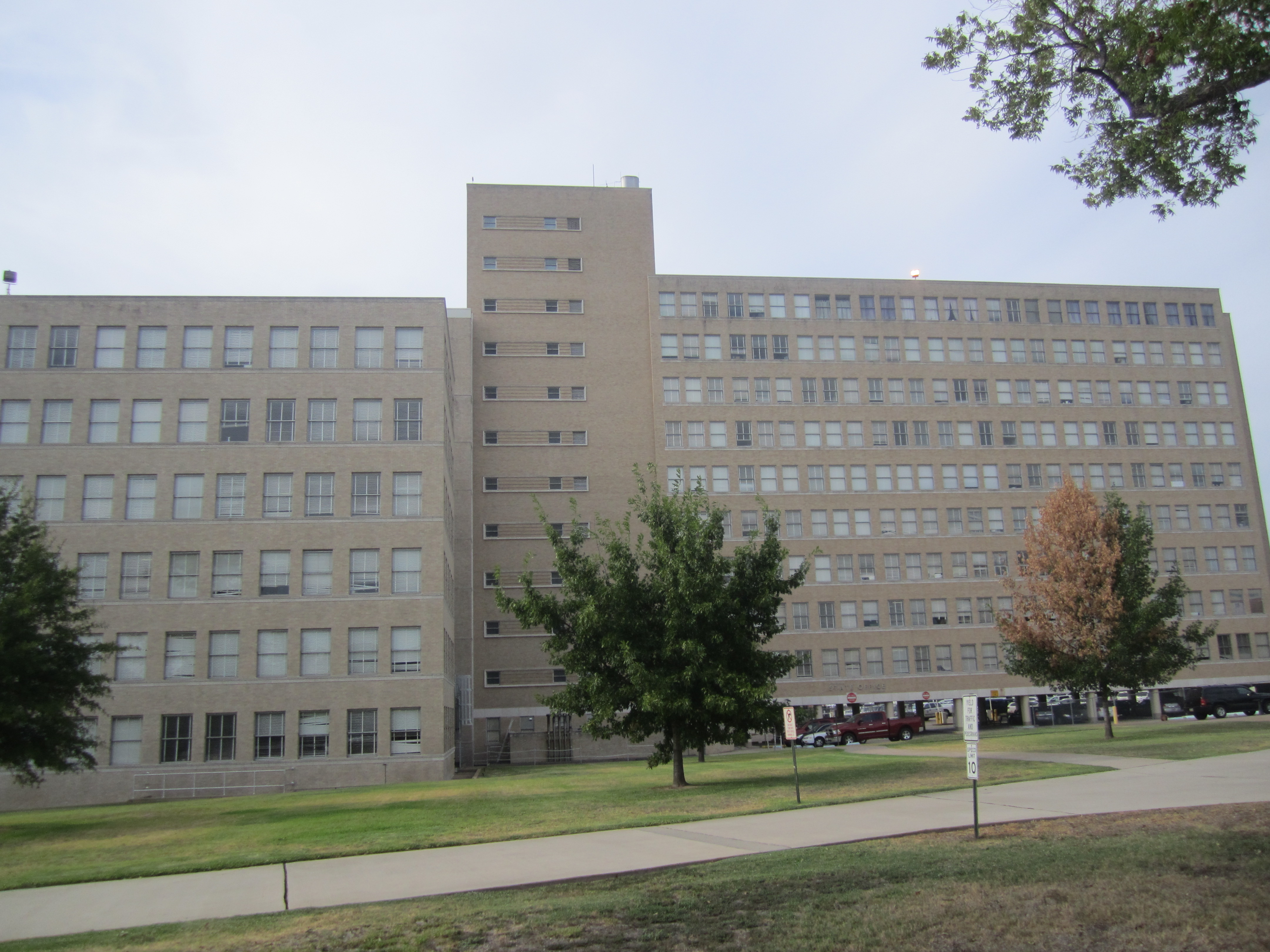 I took photo of Louisiana State Office Building in Shreveport, LA, using Canon camera.